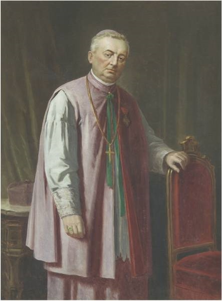 Mihály Haas 1810-1866 Bishop of Satu Mare 1858-1866